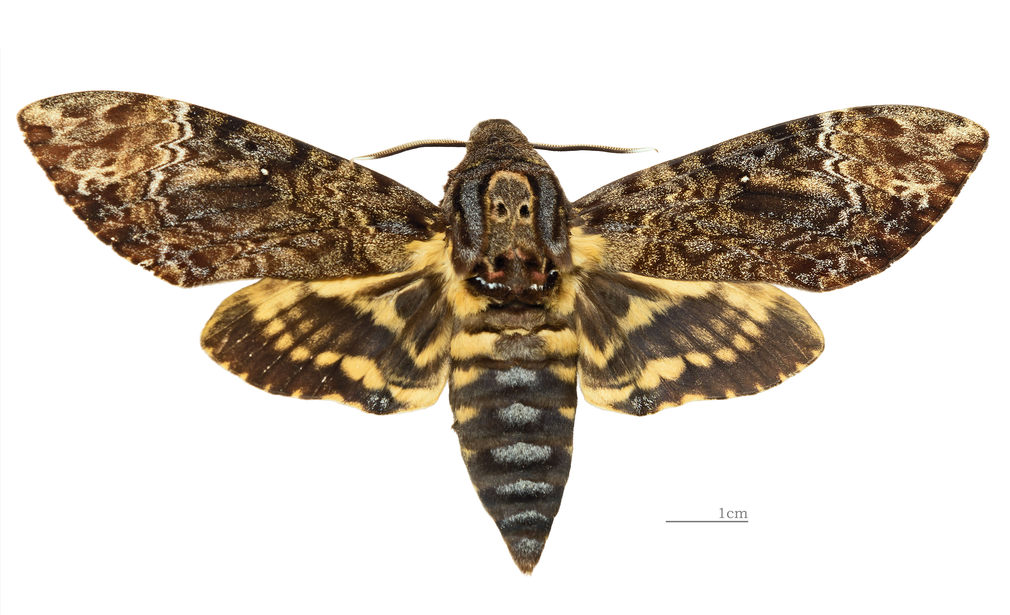 Acherontia lachesis - Dorsal side Collection of the Mathematician Laurent Schwartz